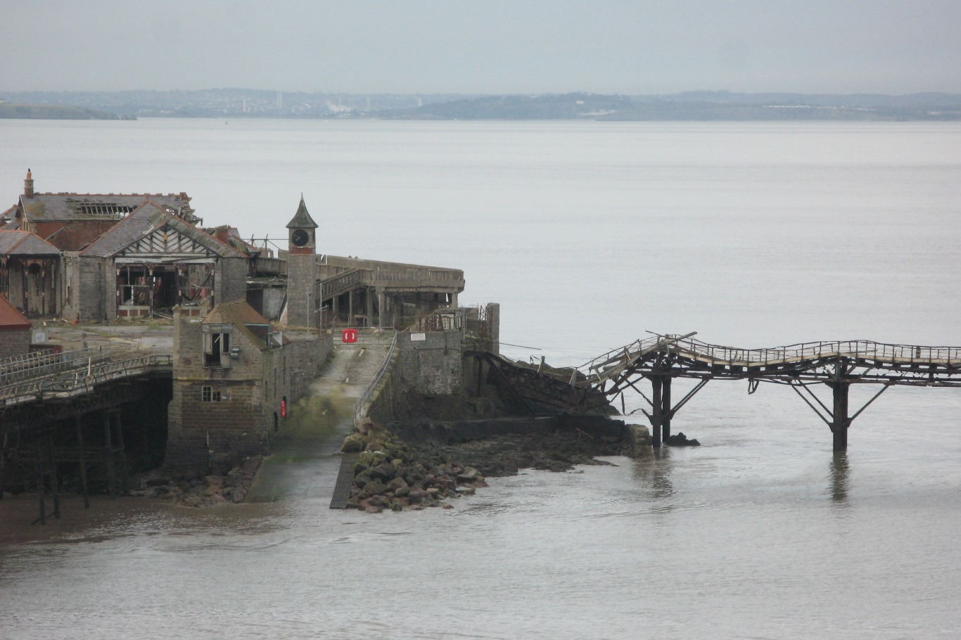 Storms in December 2015 finally caused the first span of the long-disused North Steamer Pier at Birnbeck Island to collapse onto the pebbles below.